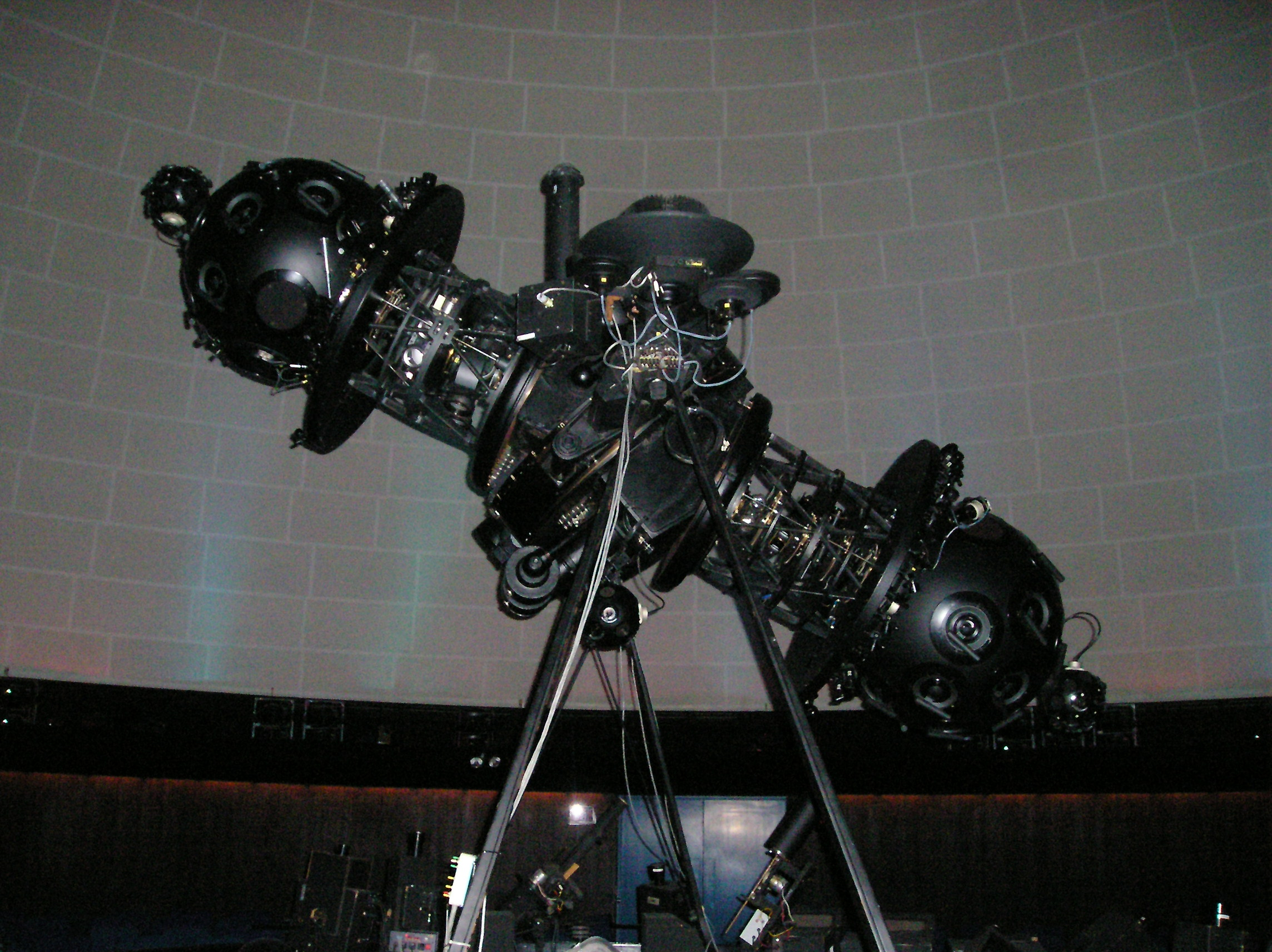 Picture of the electro-mechanical Zeiss planetarium projector located in the Montreal Planetarium. Picture taken February 24 2006.